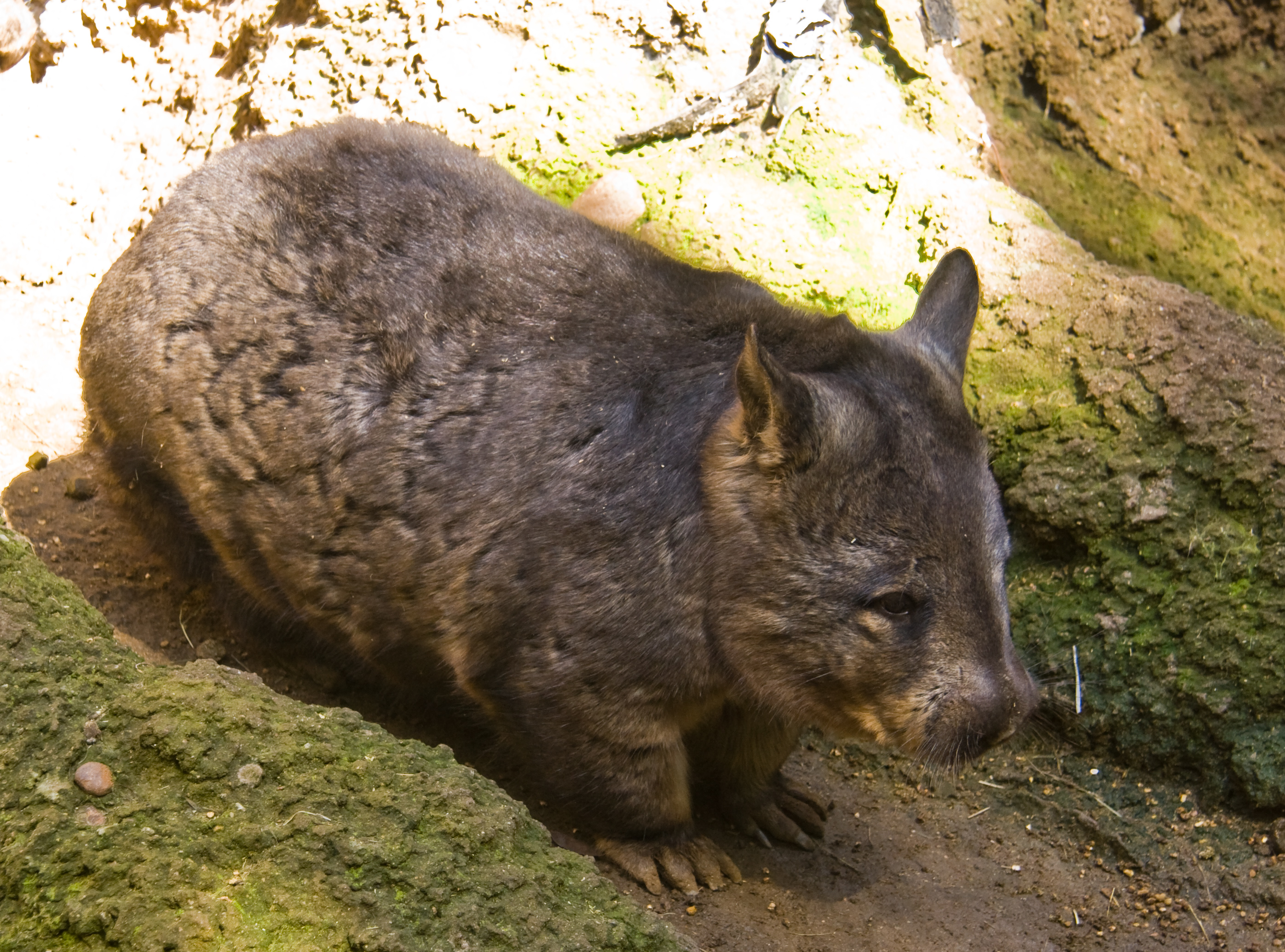 This guy was cool, but seemed kind of sad. He just stood there staring at the ground.